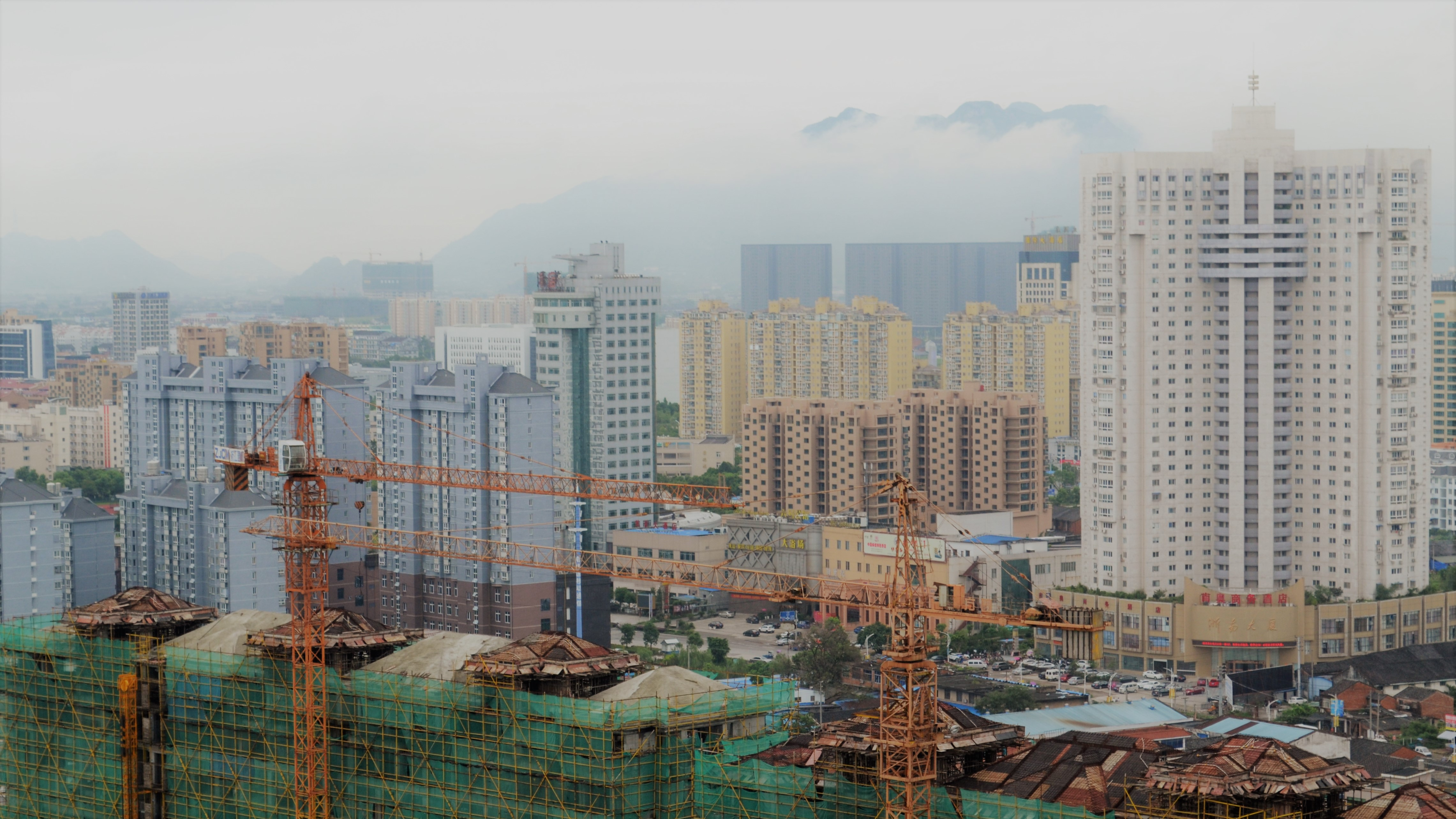 New District of Cangnan